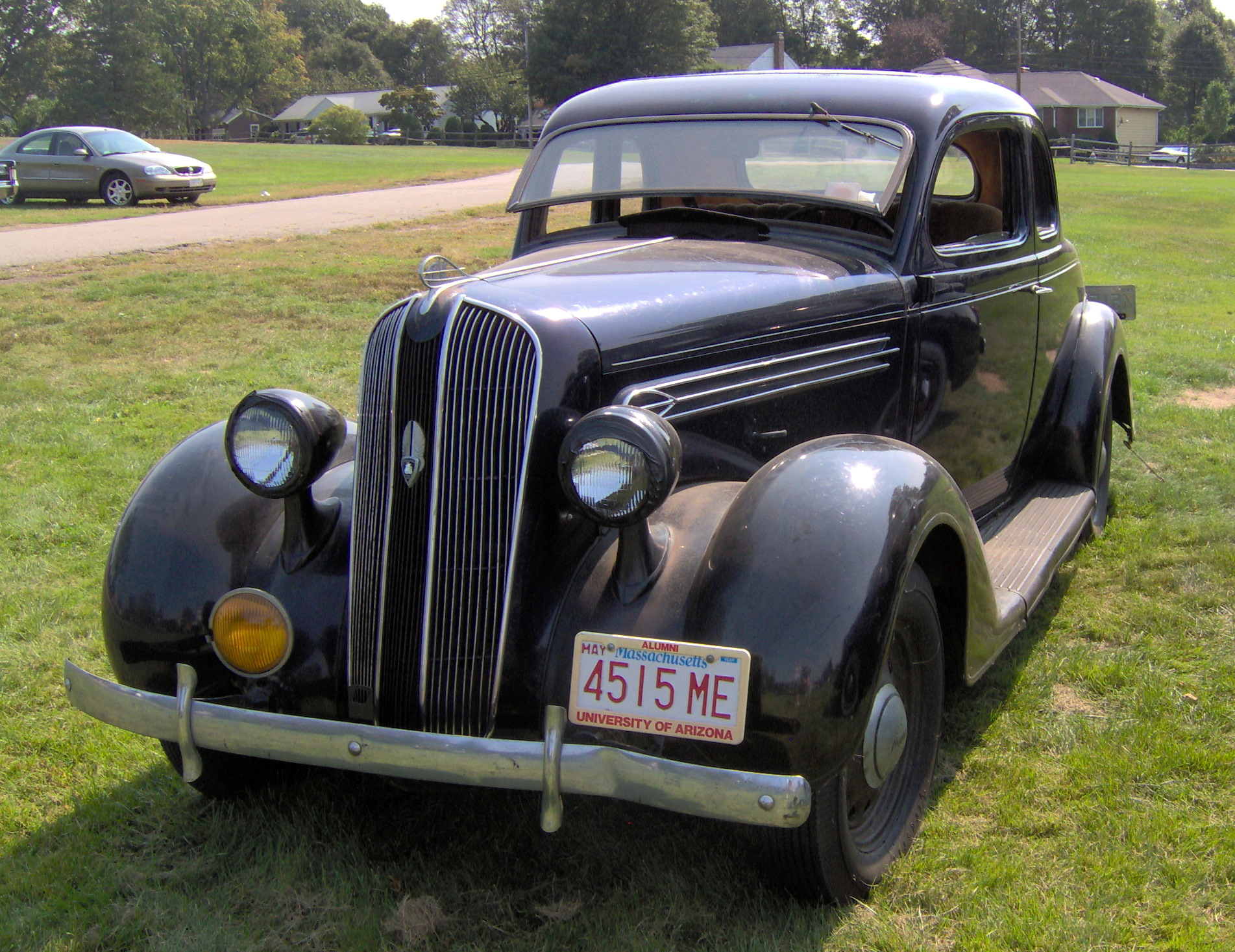 1936 Plymouth Model P1 Business Coupe